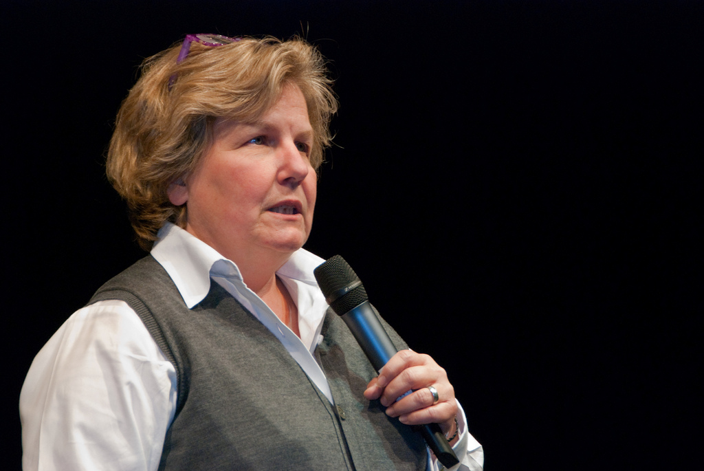 BBC Radio 4's News Quiz recording at the University of Bedfordshire.